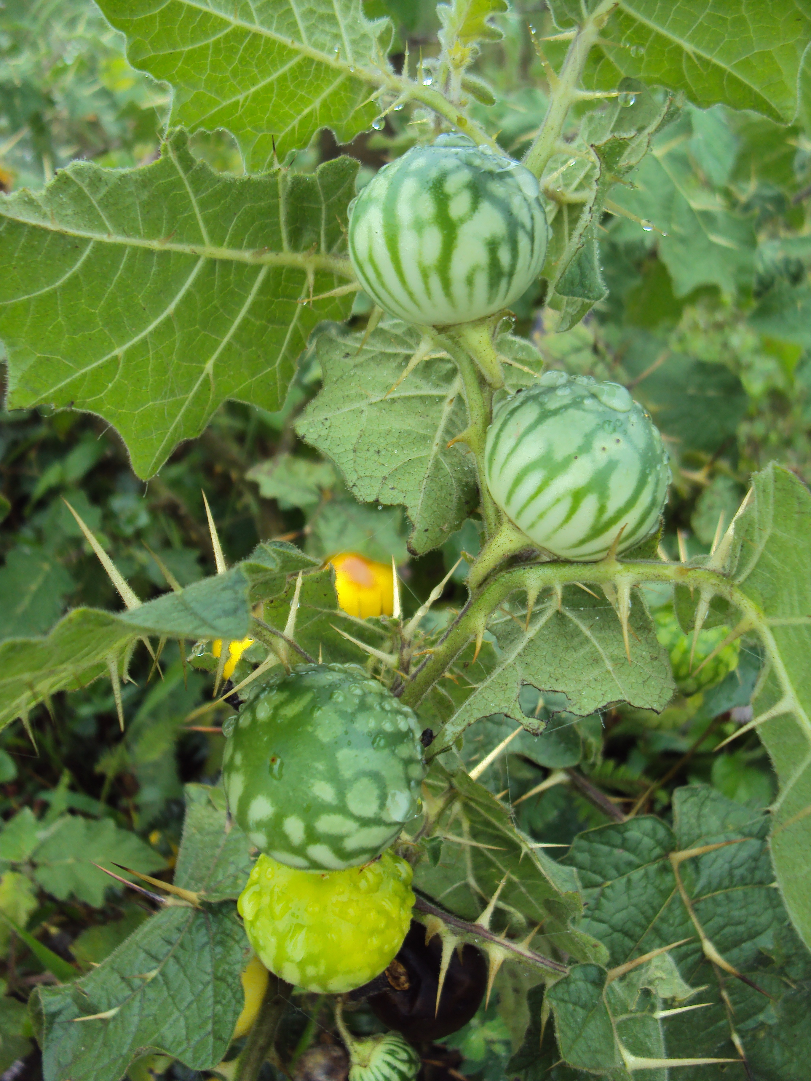 Solanum viarum